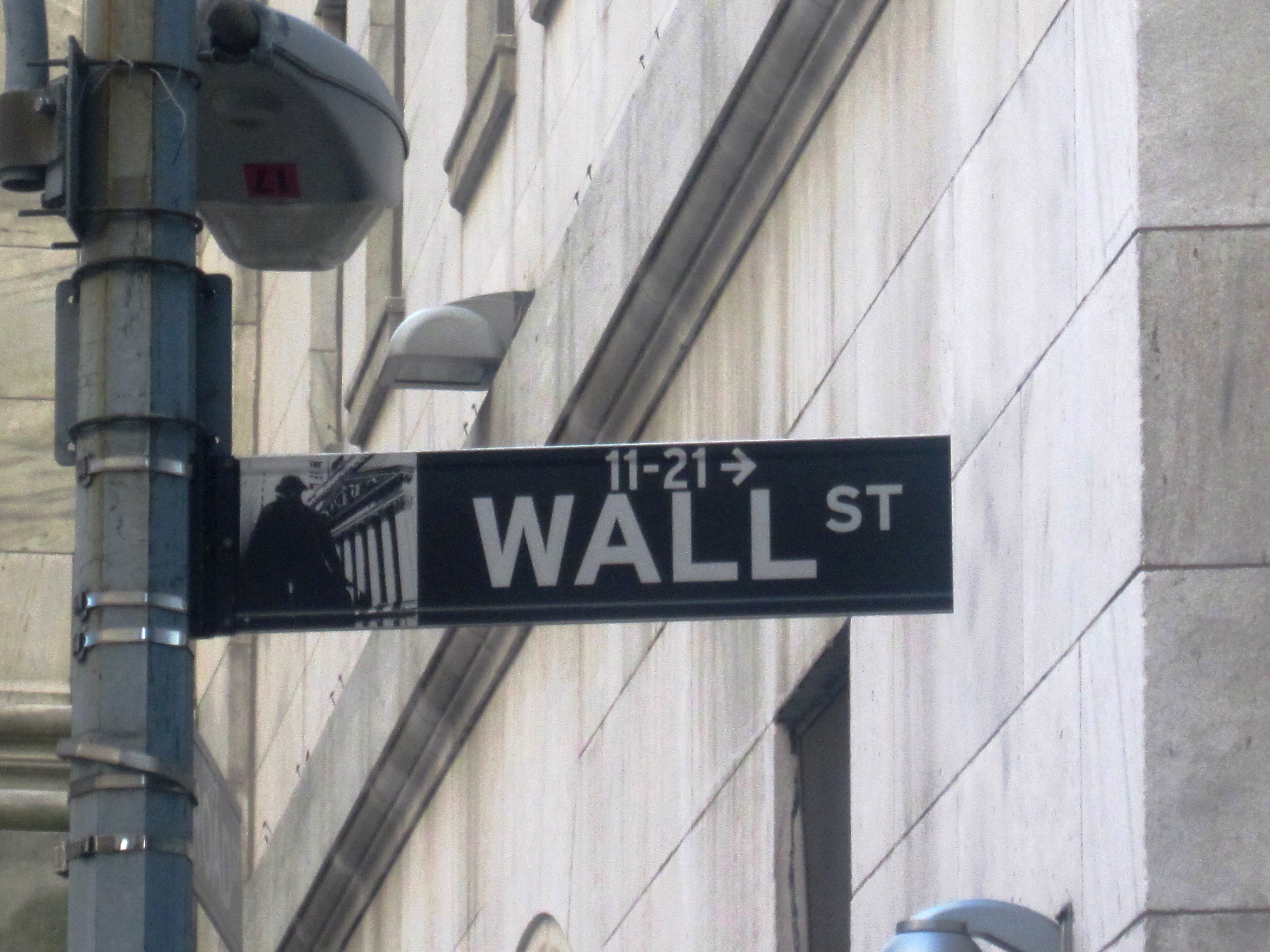 Wall Street sign on Wall Street